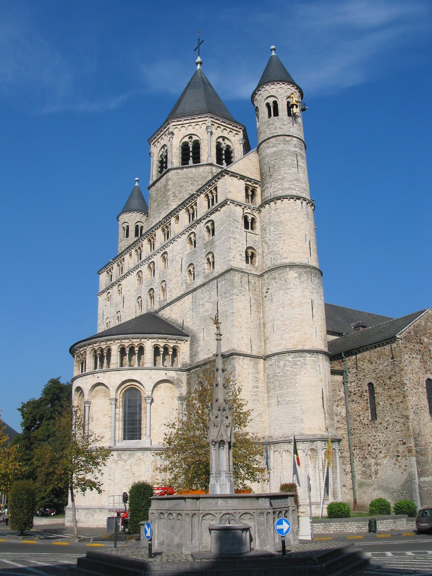 Nivelles (Belgium), the St. Gertrude Collegiate church (XI/XIIIth century), her restored fore-part (XXth century) and the replica of the Perron fountain (1922). Walon: Nivèle (Bèljike), li coléjiale Sint Djèrtrûde (XI/XIIIin.me sièkes, si avant-cwârps rimètu a noû au (XXin.me sièke) èt l’rèplike dol fontin.ne do pèron (1922).